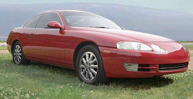 LS 400